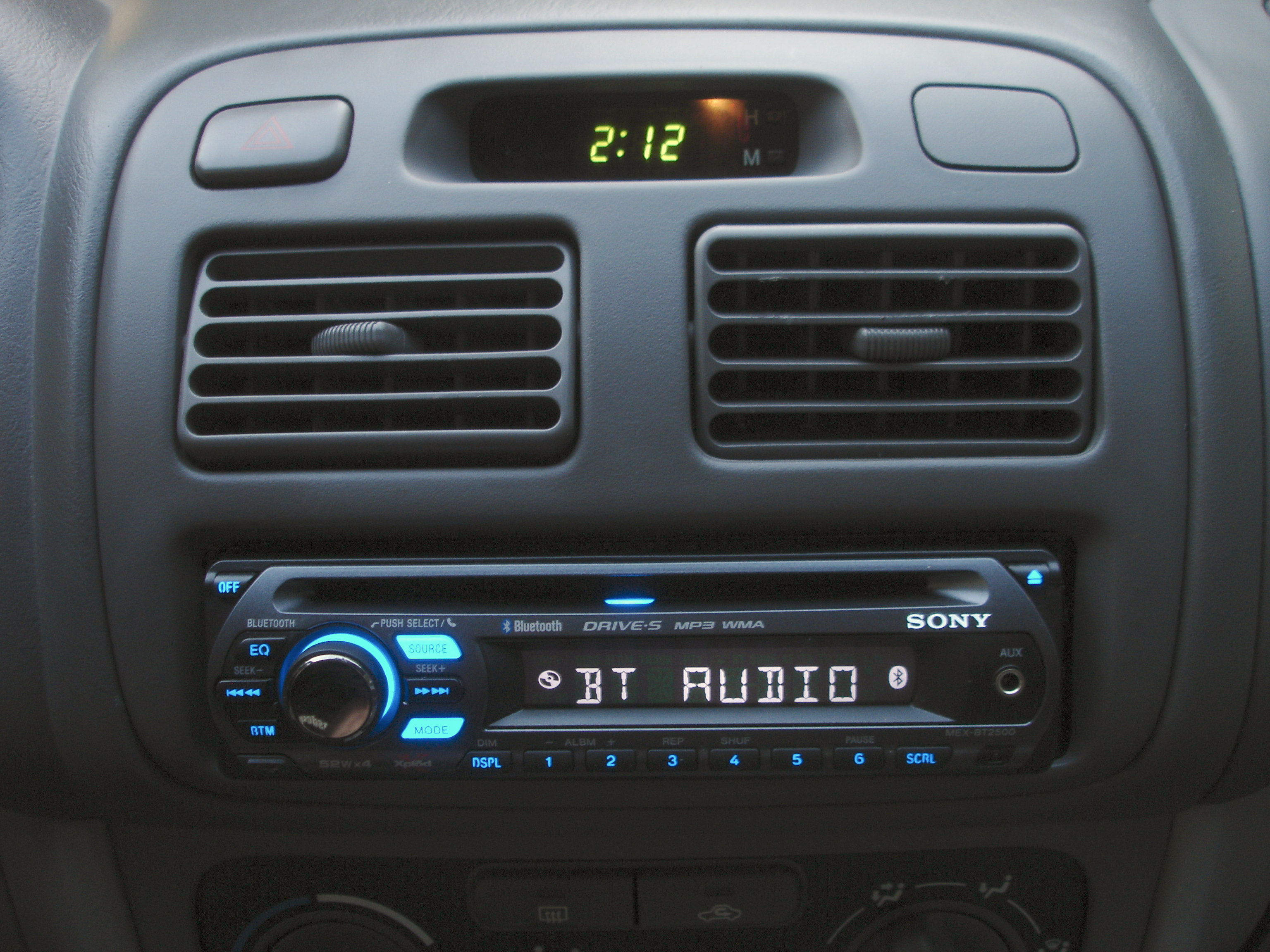 Sony Xplod MEX-BT2500 Bluetooth stereo head unit illuminated. 1998-2002 Toyota Corolla E110/Geo/Chevrolet Prizm dash.